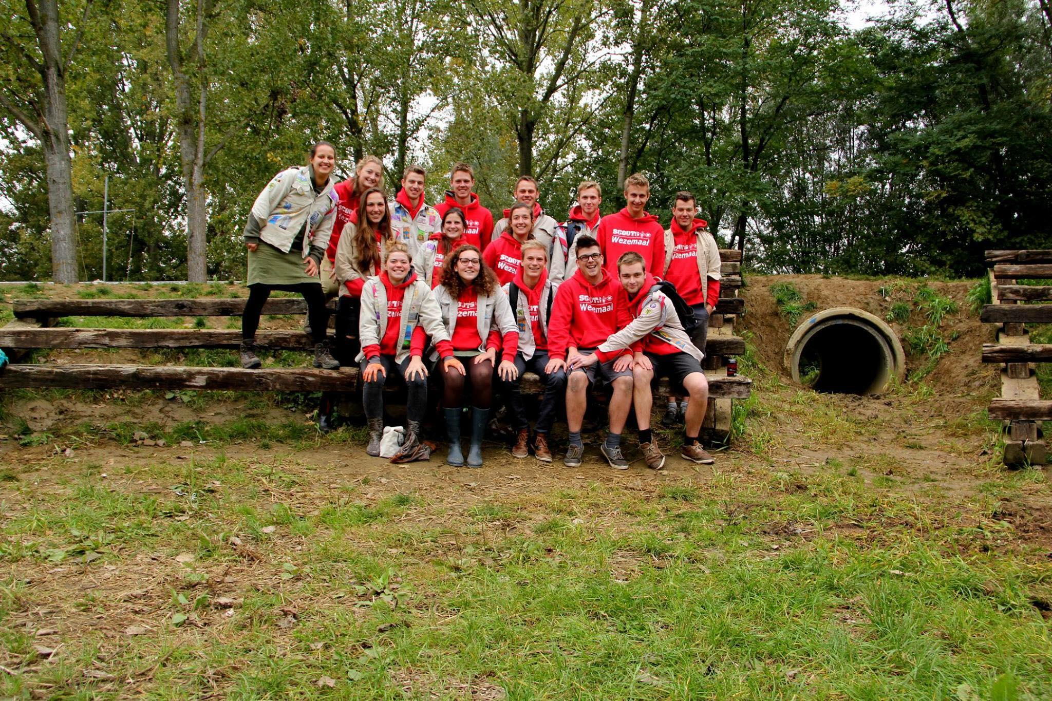 Picture of the crew of Scouts Wezemaal.